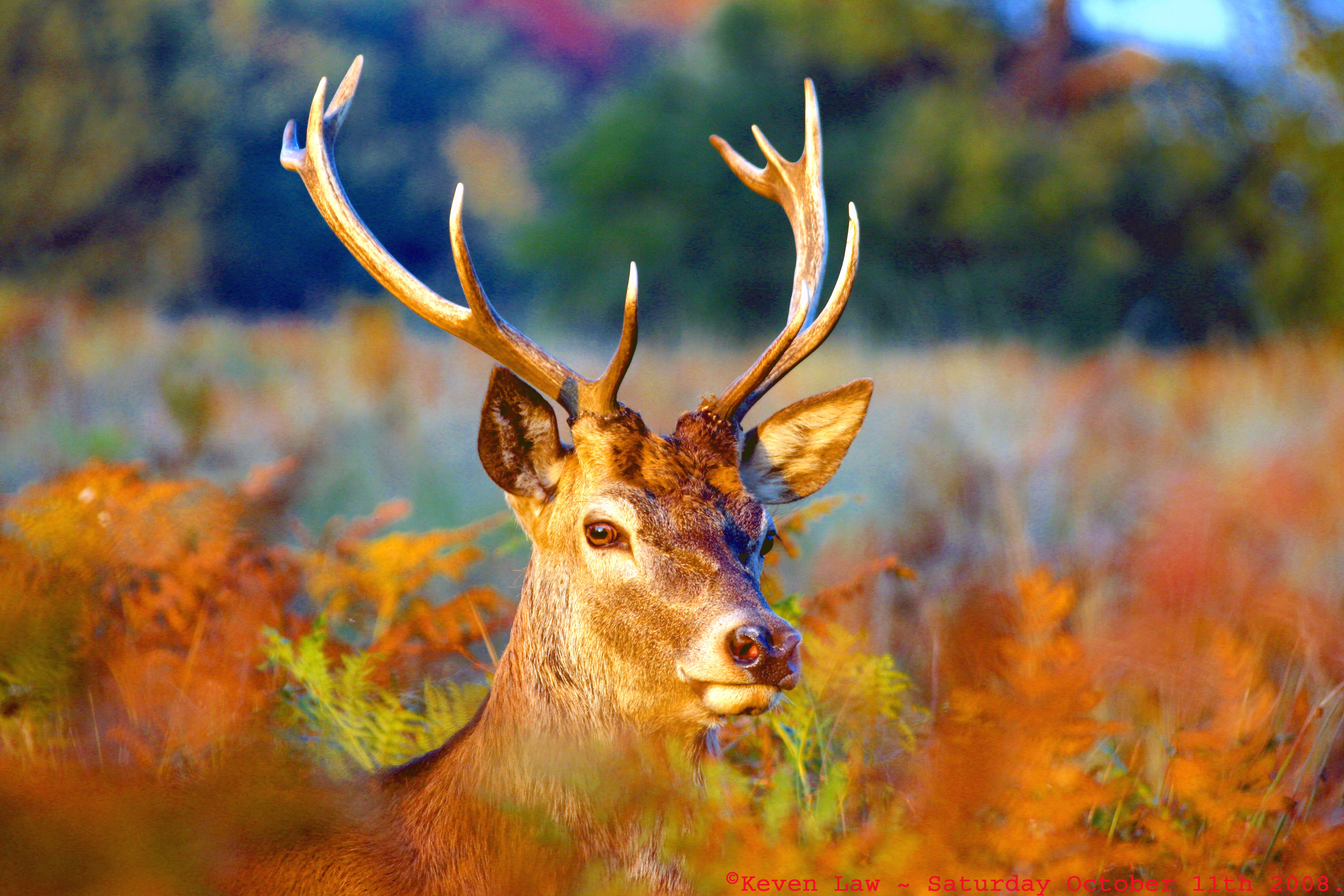 A deer (Odocoileus species) in camouflage